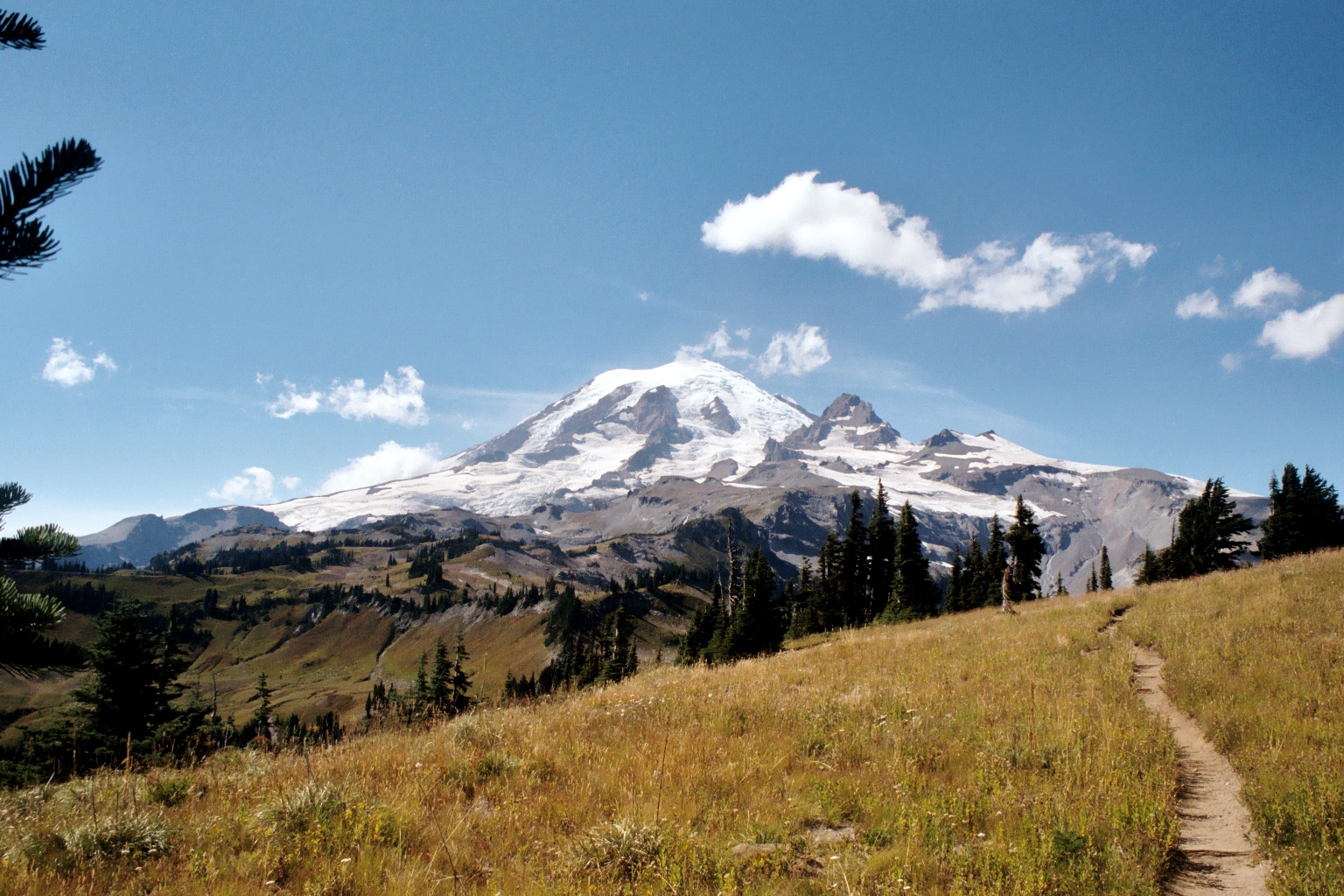 Mount Rainier from the Cowlitz Divide along the Wonderland Trail.